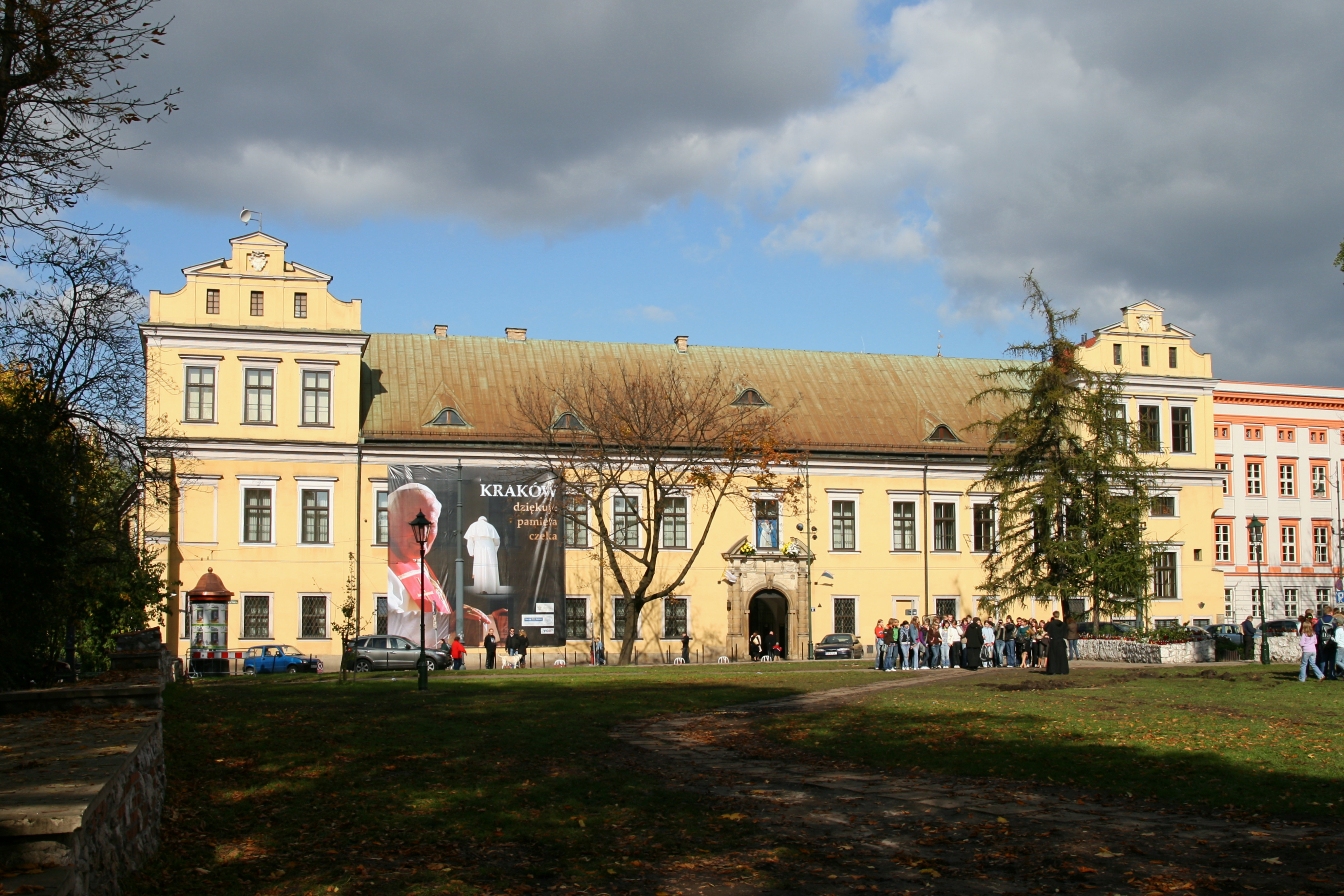 Bishops Palace in Kraków (Poland).